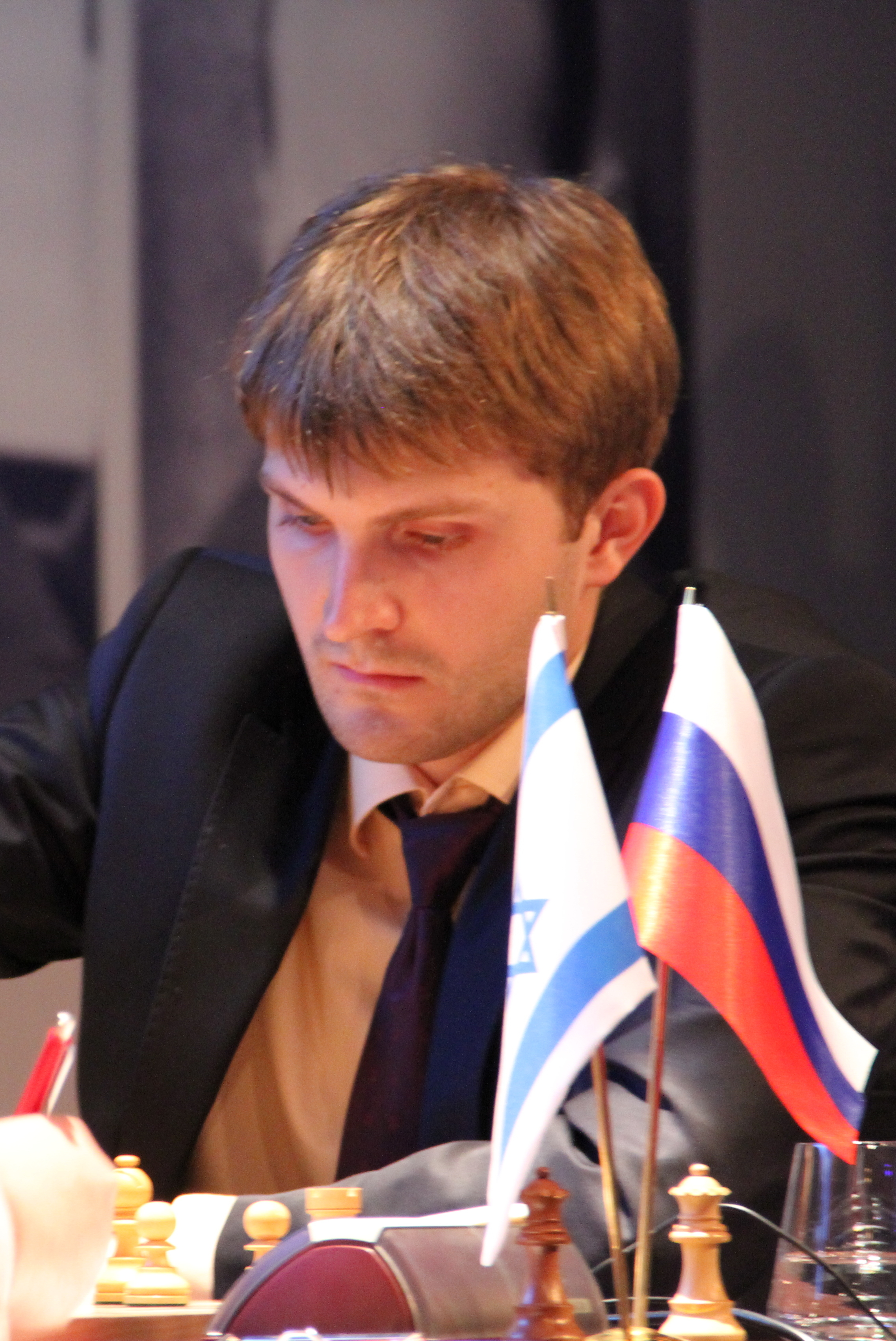 Nikita Vitiugov at the Alekhine Memorial 2013 (Paris)